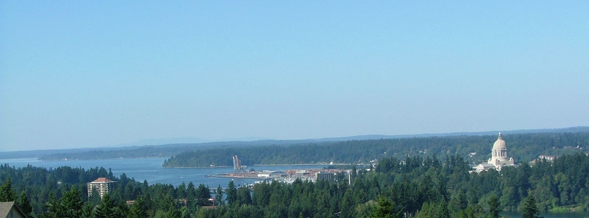 Olympia, WA from Tumwater Hill. Aug. 2005, AMP